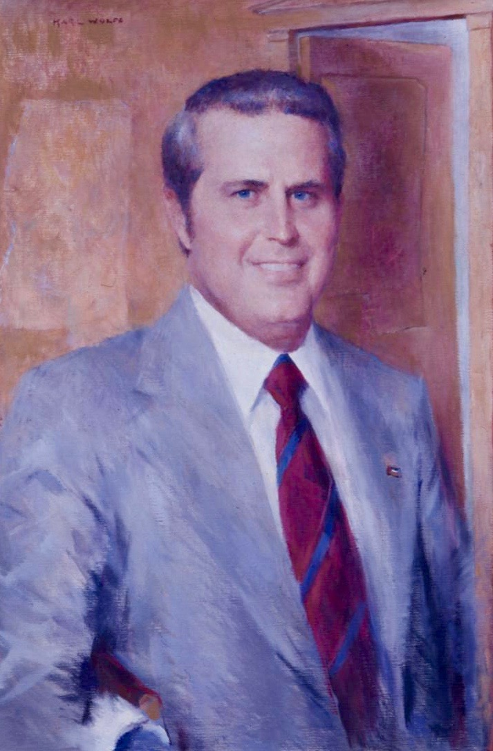 Collection: Governors Portraits photograph collection Call number: PI/1989.0008 System ID: 98810. Link to the catalog Governor William L. Waller, Jan. 18, 1972 to Jan. 20, 1976. Please see our profile page for information on ordering. Scanned as tiff in 2008/09/30 by MDAH. Credit: Courtesy of the Mississippi Department of Archives and History